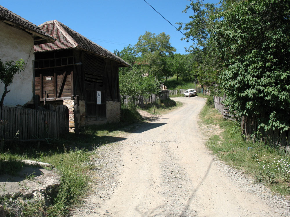 In Siljevica